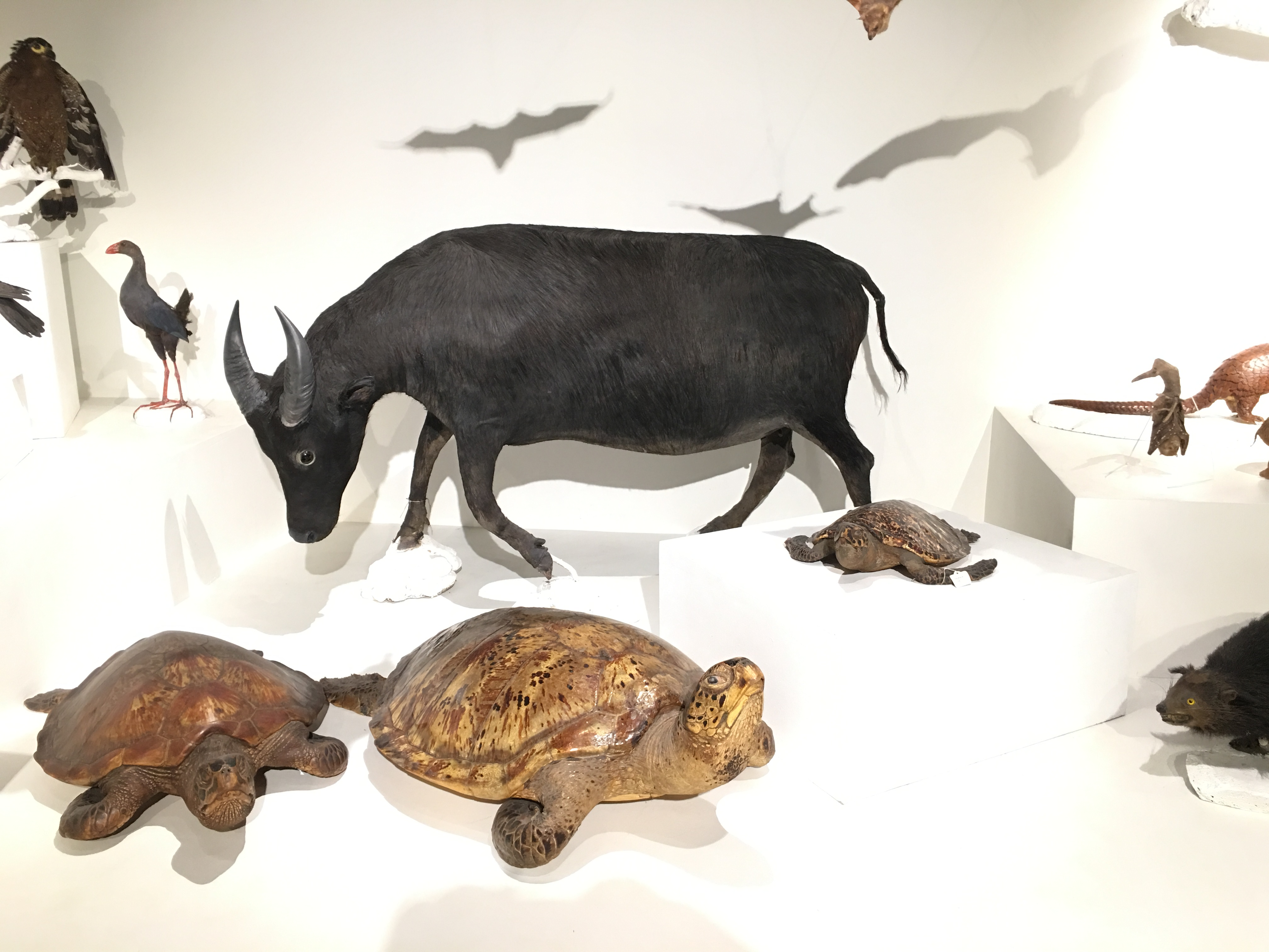 Preserved Tamaraw in Philippine National Museum